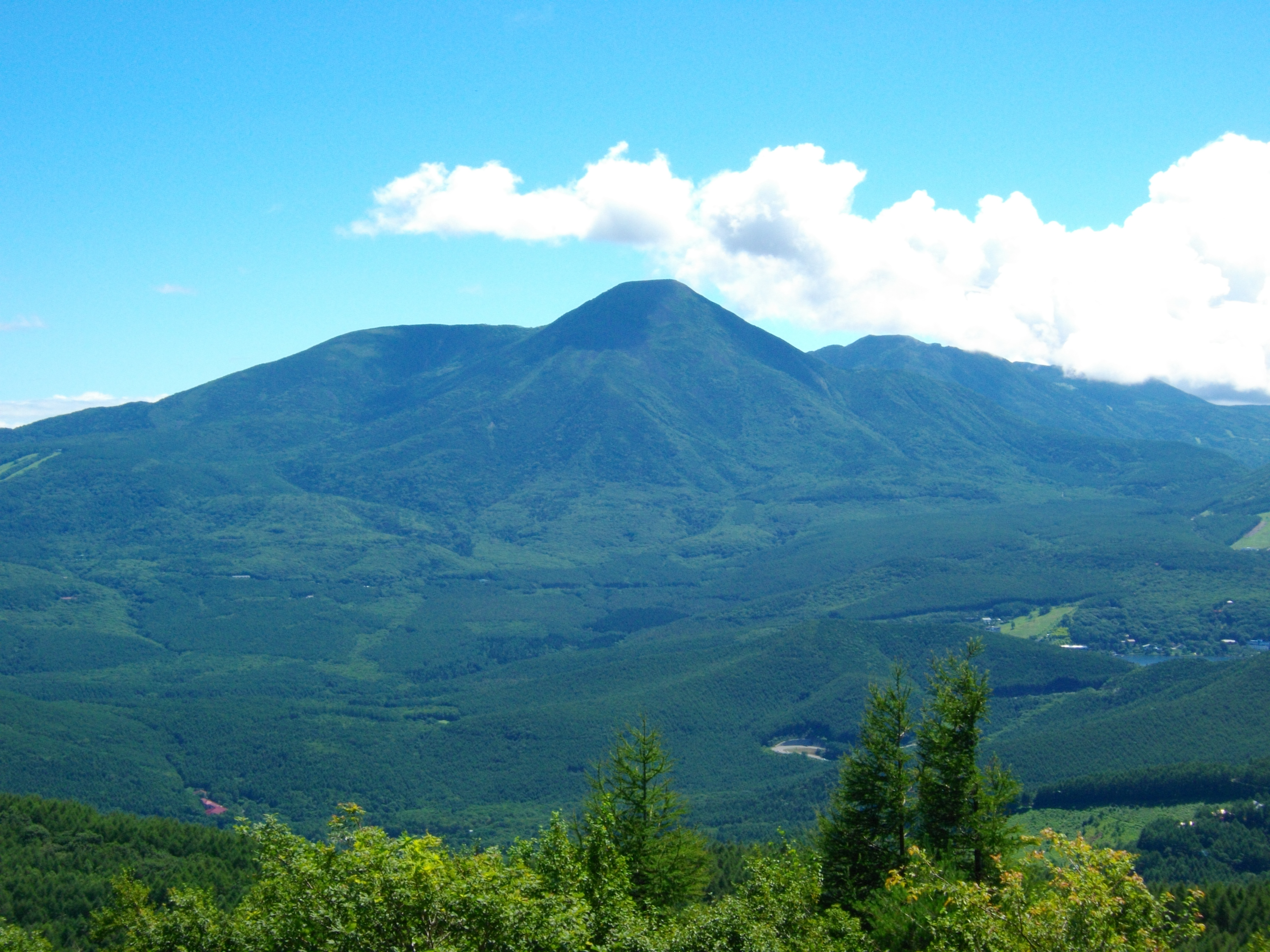 Mount Tateshina, Honshu, Japan. From Mount Kitanomimi.